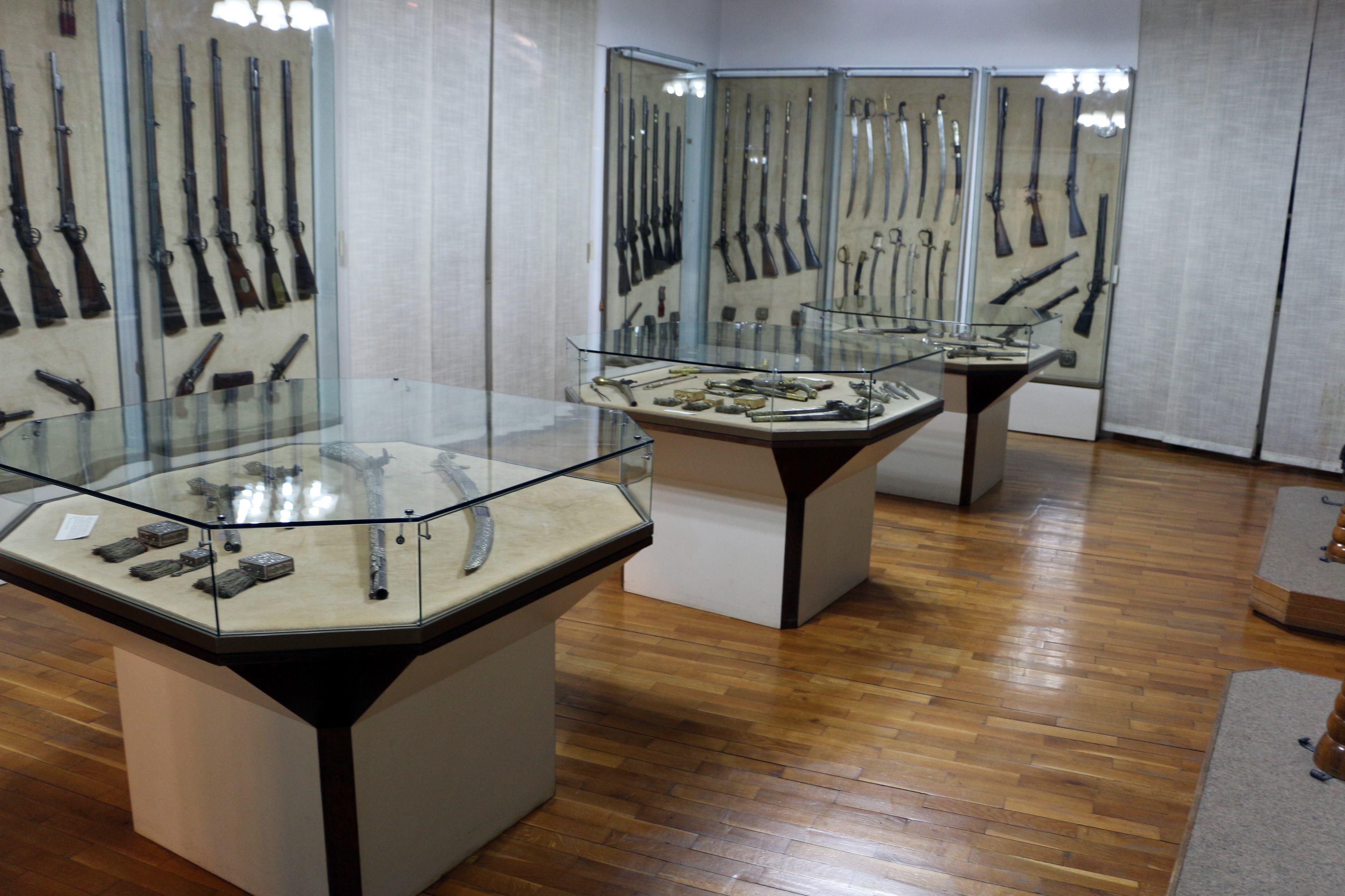 Maritime Museum of Montenegro in Kotor